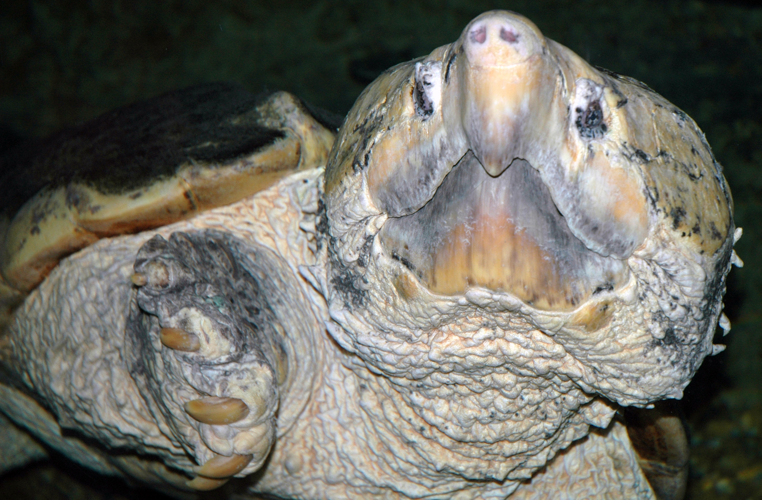 Macrochelys temminckii Troost, 1835 - alligator snapping turtle (captive, Newport Aquarium, Newport, Kentucky, USA). This large, heavy, freshwater aquatic turtle is a ambush hunter. It lies still on a substrate and uses a bright pink-colored, worm-like structure on its tongue to attract potential prey, such as fish. The jaws of this animal are exceedingly powerful. Classification: Animalia, Chordata, Vertebrata, Reptilia, Anapsida, Chelonia, Chelydridae The turtles & tortoises (chelonians) are an ancient group of reptiles that have a Triassic to Holocene stratigraphic record. Turtles are most easily recognized by their shell - some forms can retract the head & limbs into the shell when threatened, while other species cannot. Their overall body plan has changed very little since the Triassic - a great example of conservative evolution. Chelonians occur in terrestrial, freshwater, brackish-water, and marine settings.